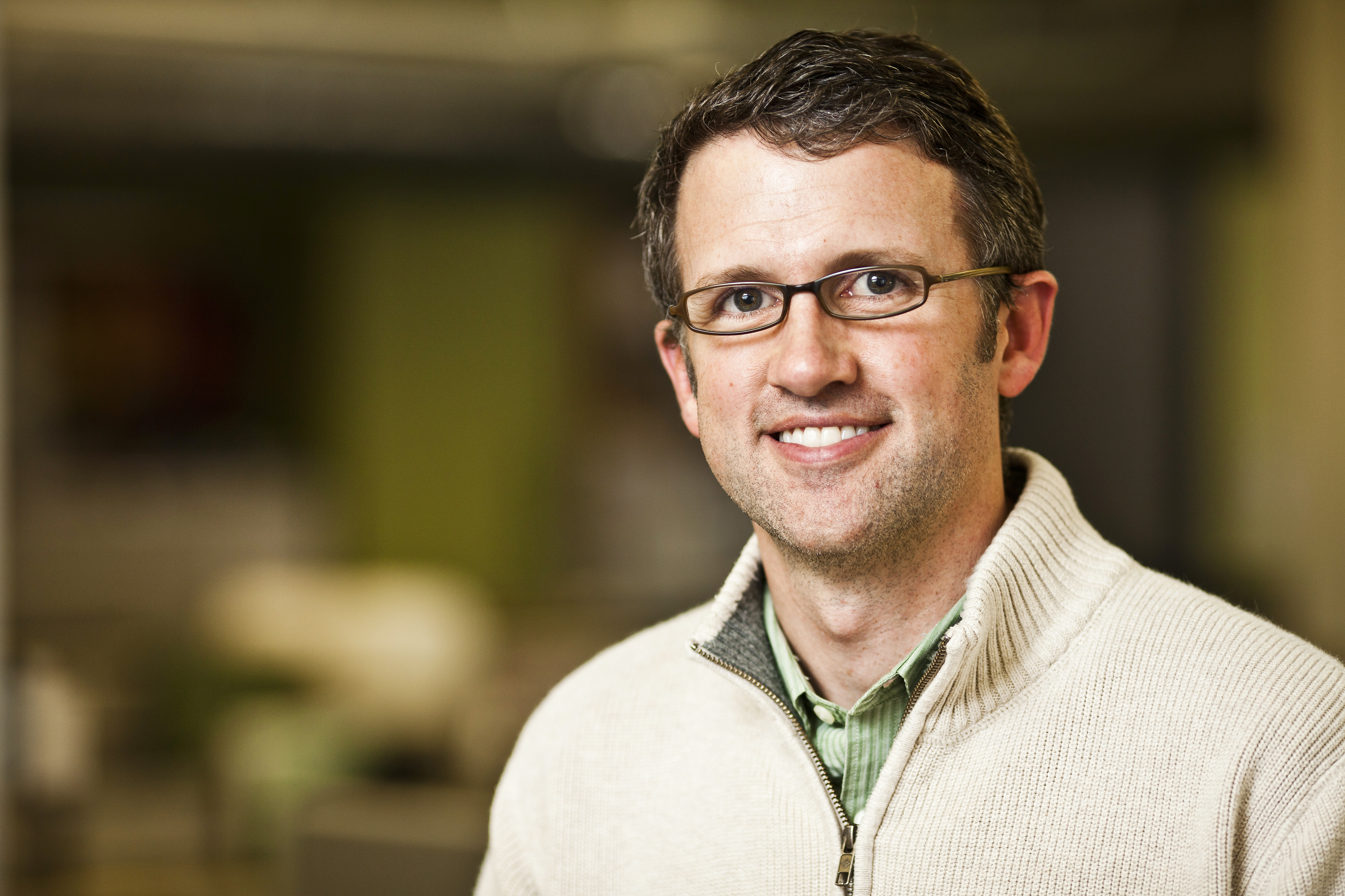 Portrait of Wikimedia Foundation Board member Stuart West